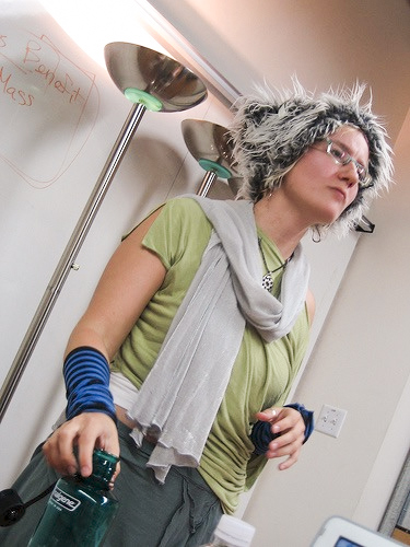 Danah Boyd 2005 at SXSW